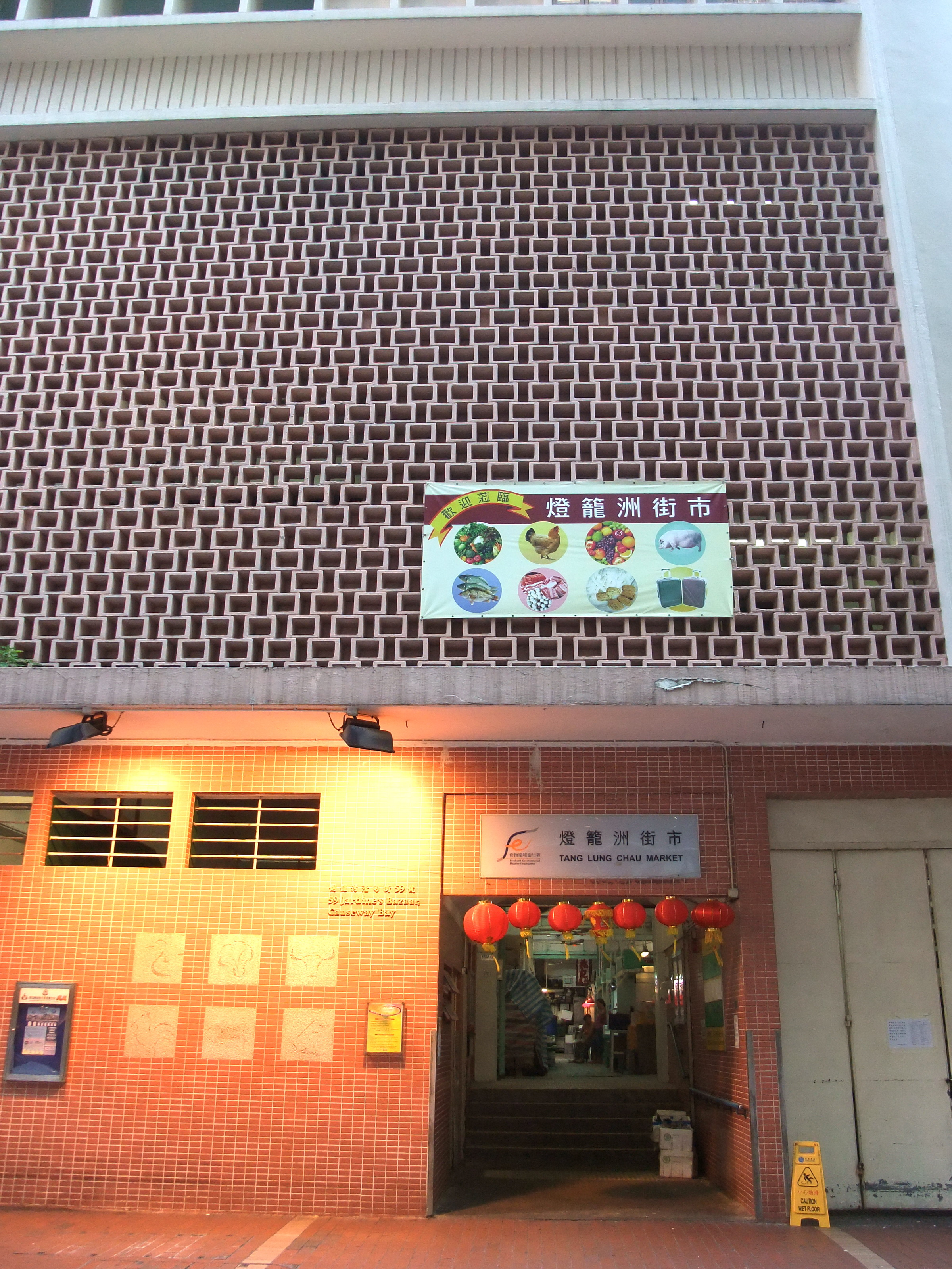 Tang Lung Chau Market, Causeway Bay, Hong Kong.